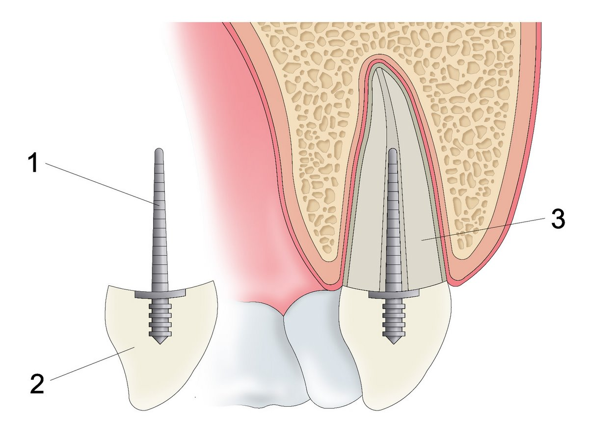 Logan crown (1 - post, 2 - crown, 3 - root)